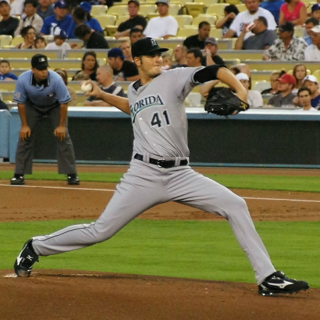 Chris Volstad on July 11, 2008